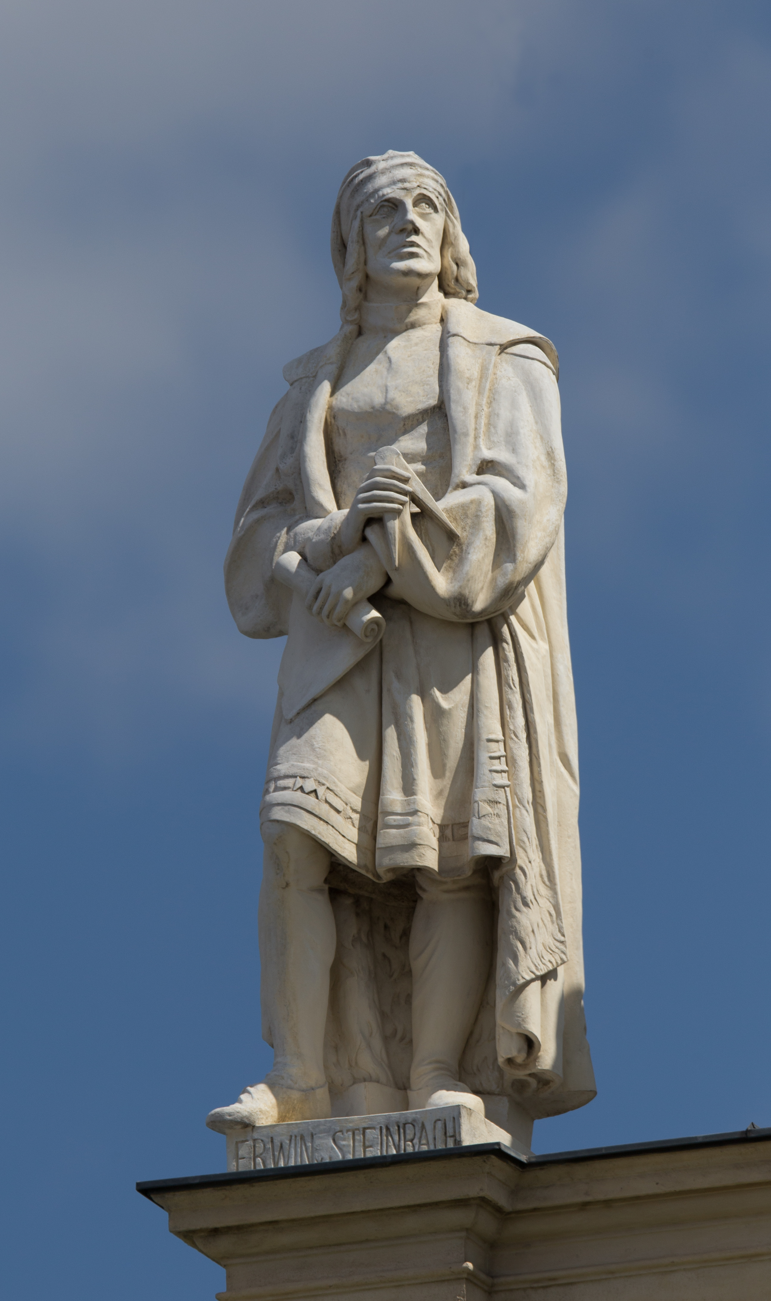 Kunsthistorisches Museum in Vienna Figure on the roof, Erwin von Steinbach The making of this work was supported by Wikimedia Austria. For other files made with the support of Wikimedia Austria, please see the category Supported by Wikimedia Österreich.